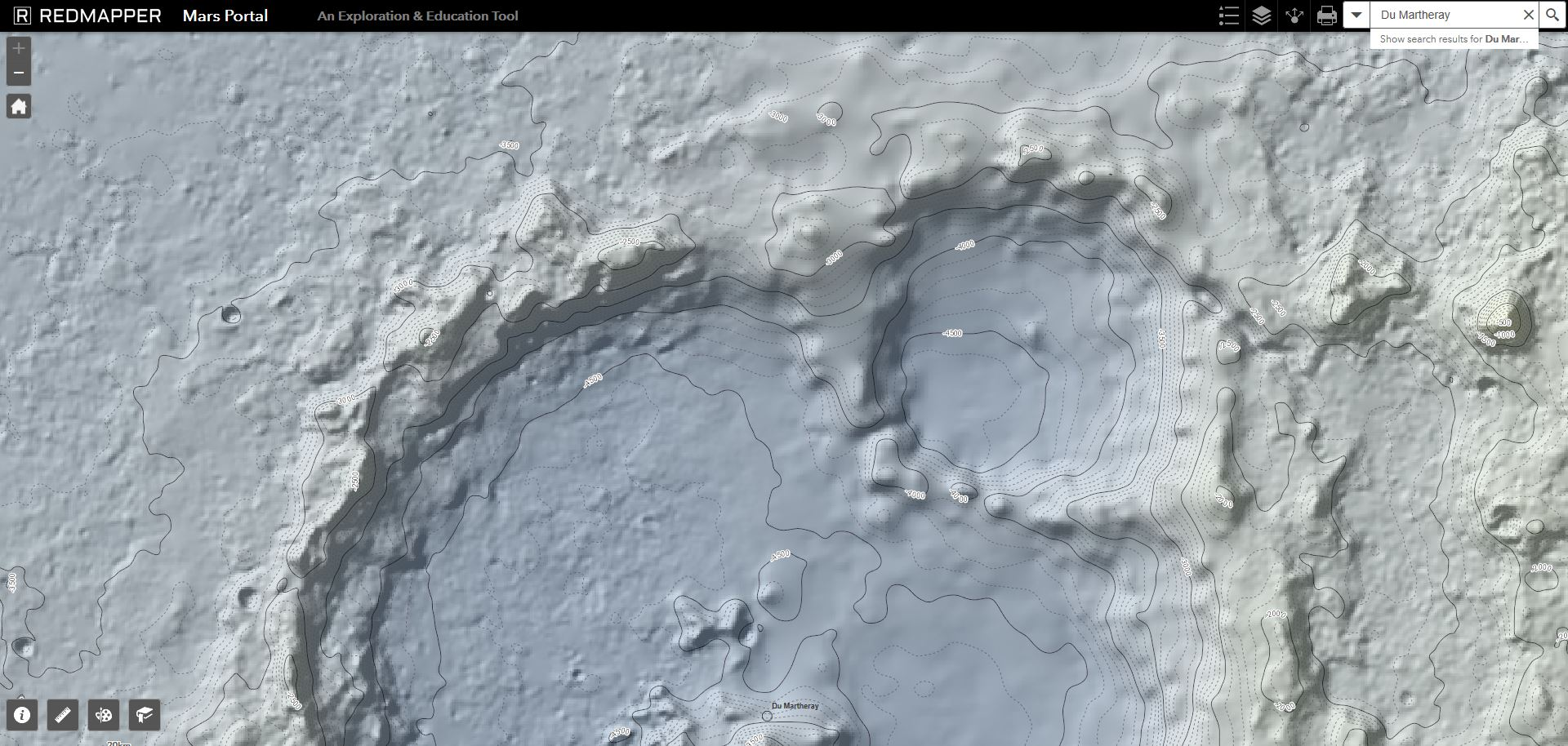 A topographic map created using Mars Orbiter Laser Altimeter (MOLA) data. This map show the relative elevation in 100 meter elevation contour lines (dashed) and 500 meter elevation contour lines (bold) with a total elevation uncertainty of +/- 6 meters.